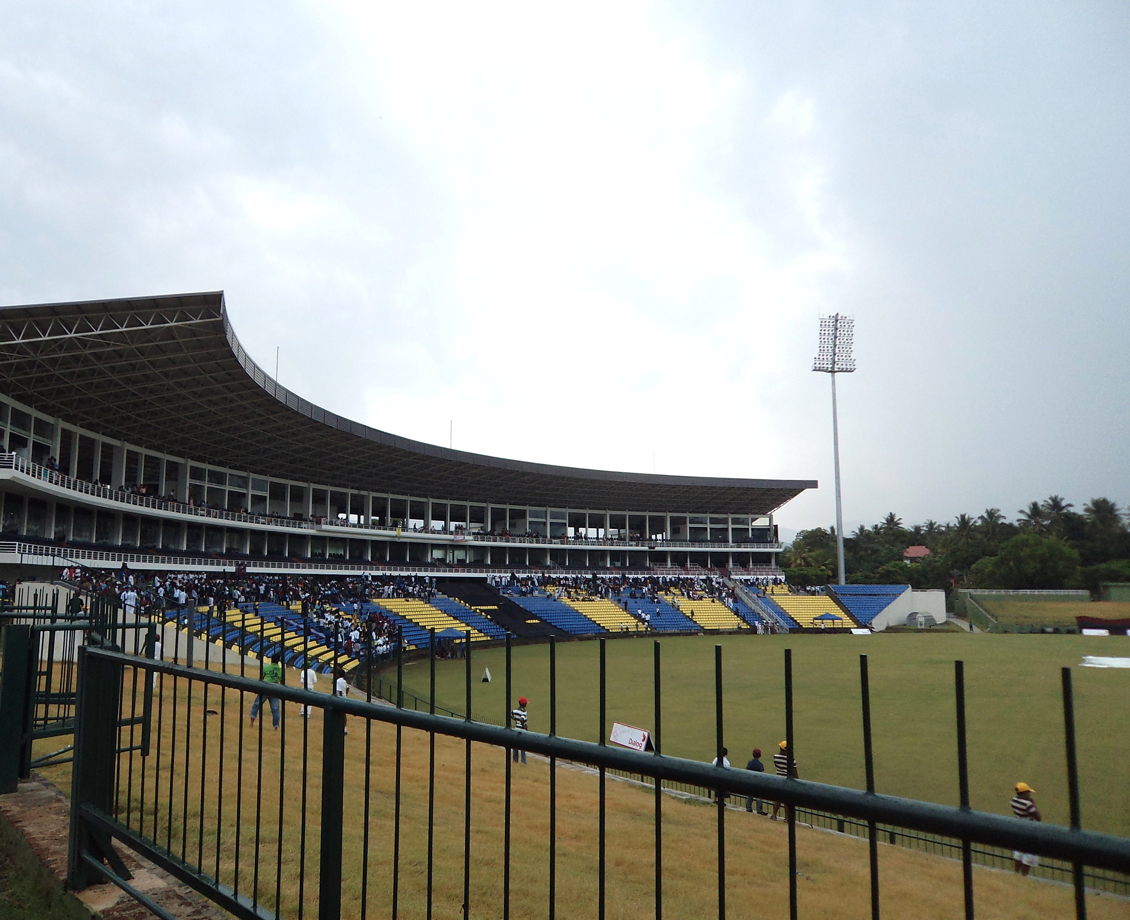 Pallekele International Cricket Stadium in Pallekele, Sri Lanka.